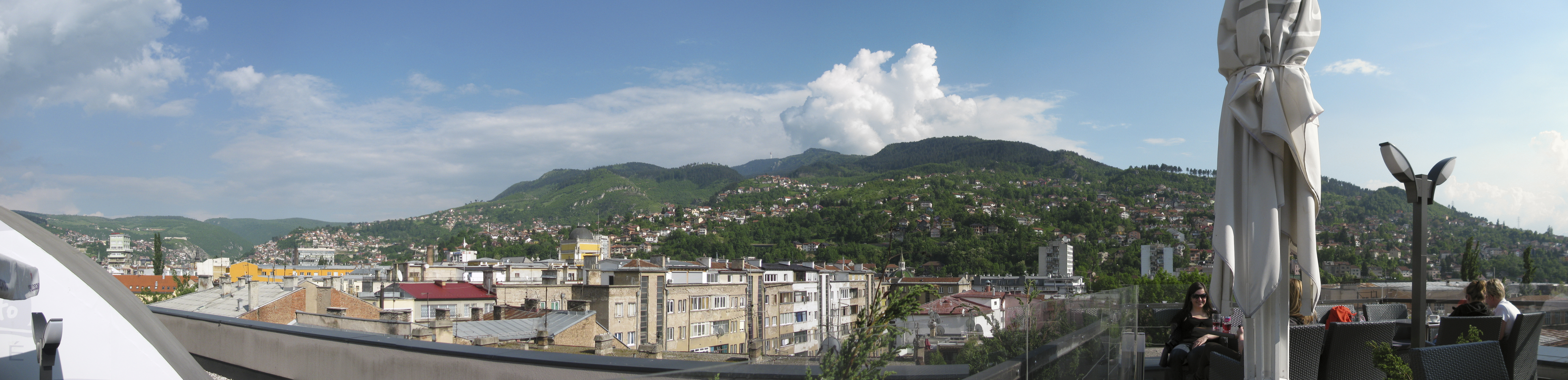 Panorama Mount Trebević view from Sarajevo, Bosnia and Herzegovina